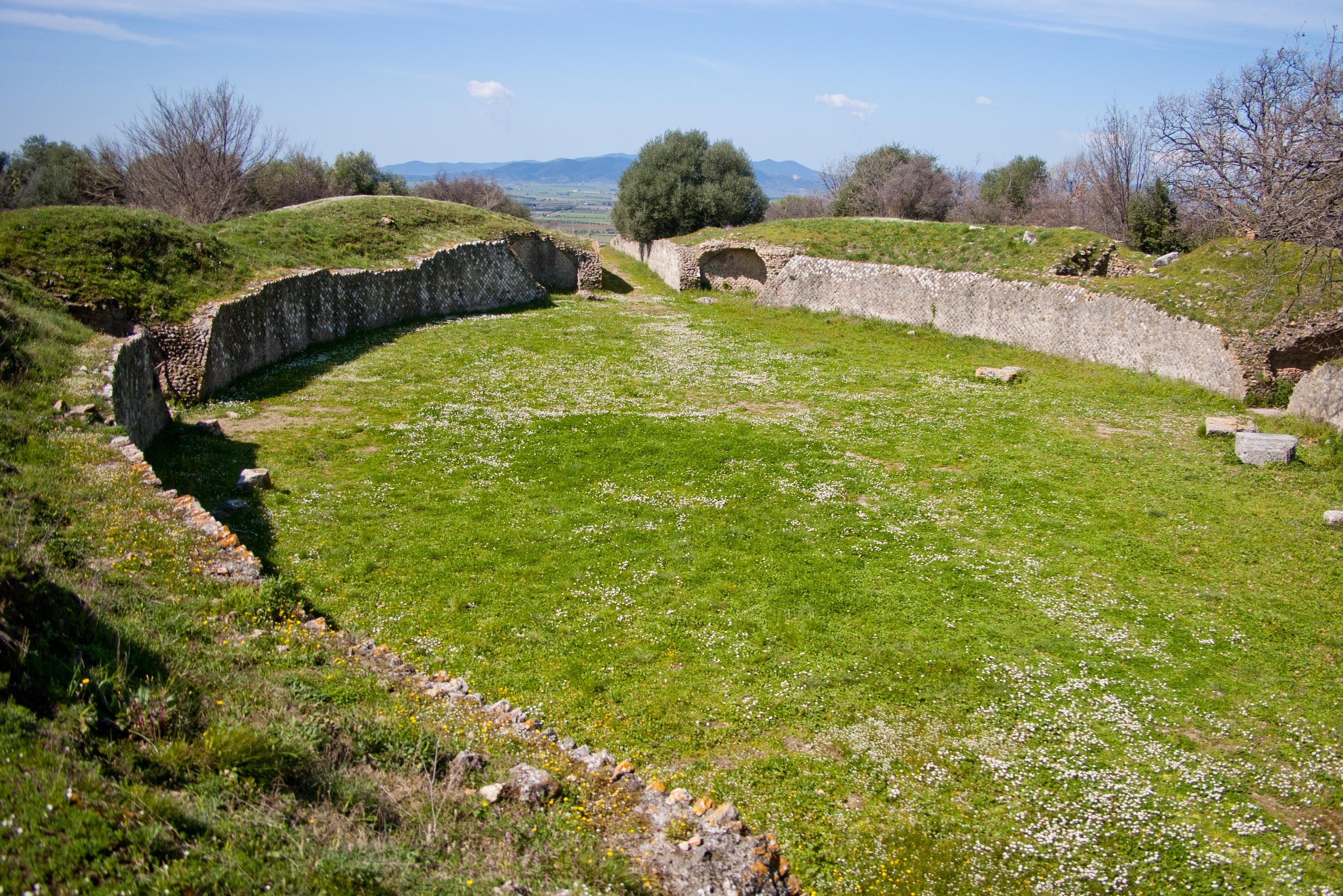 The amphitheatre of the Etrusco-Roman site of Rosellae, Italy.